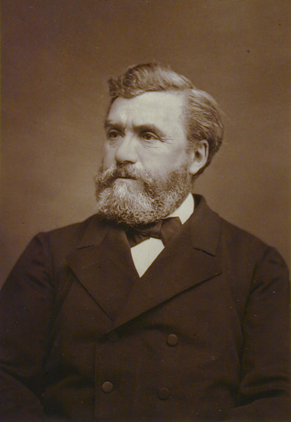 France, 1876-1884 Book: Galerie Contemporaine Volume, number, page: Volume 8 Photographs Woodburytype The Audrey and Sydney Irmas Collection (AC1992.229.129) Photography